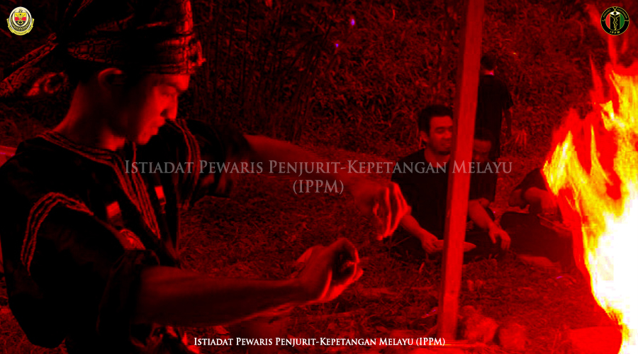 IPPM member, Wan Syahril in one of the Kris (Keris) cleansing ceremony held every year during the month of Muharram (Muslim calendar).